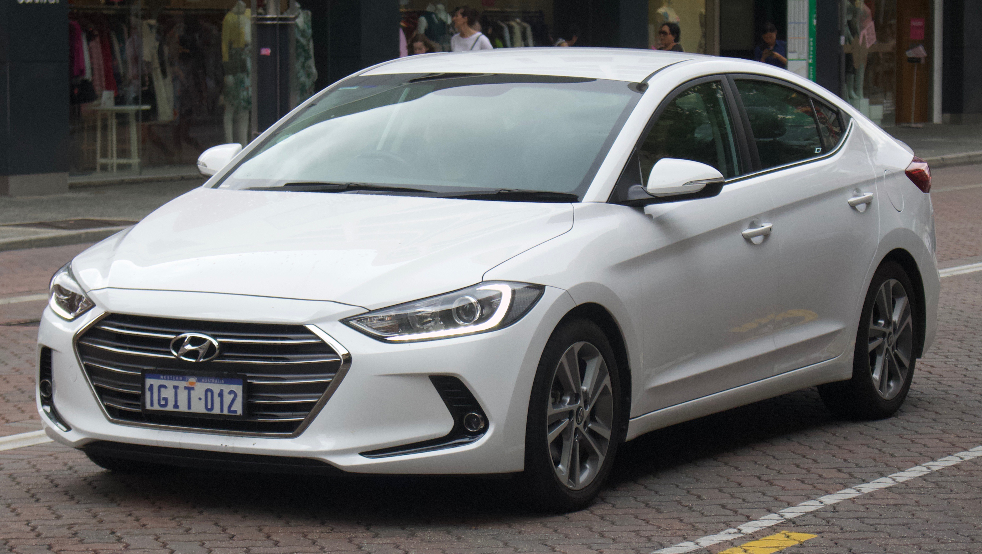 2017 Hyundai Elantra (AD) Elite sedan. Photographed in Perth, Western Australia, Australia.